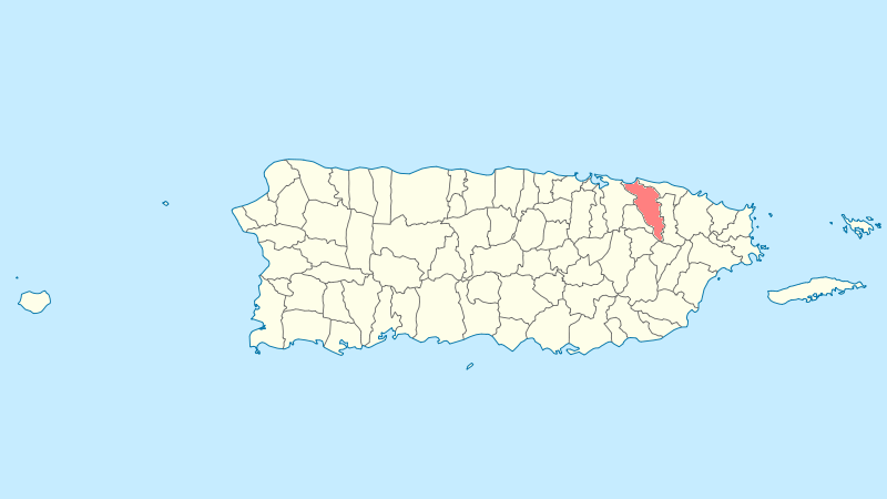 Municipal locator of Puerto Rico